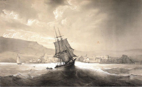 Off Tórshavn, Faroe Islands 1839